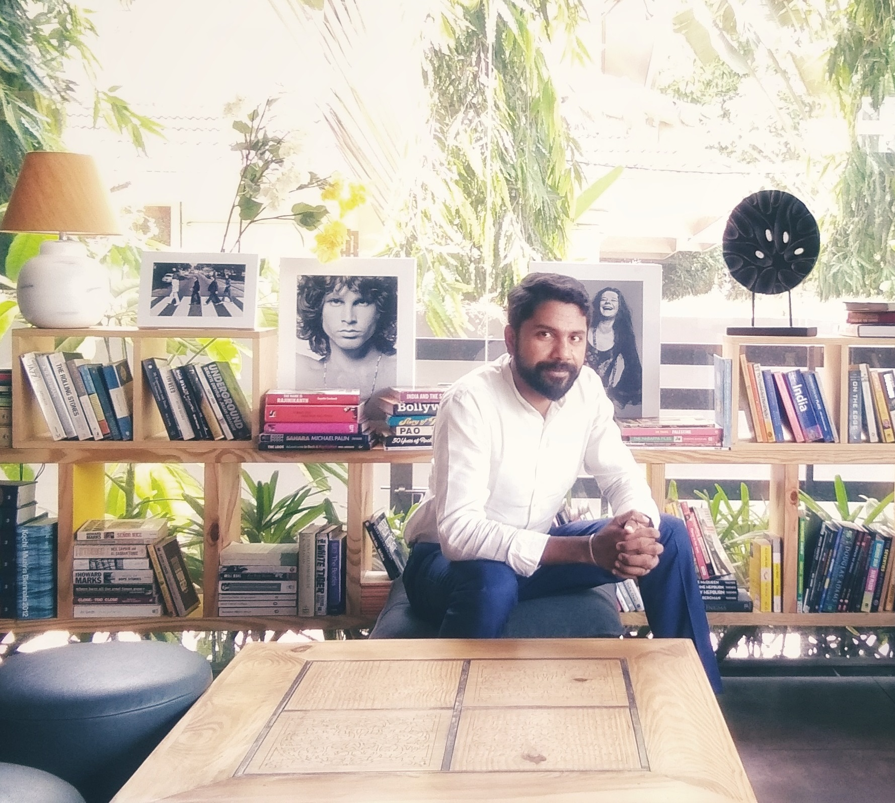 Aravind T S at Cafe Pappaya